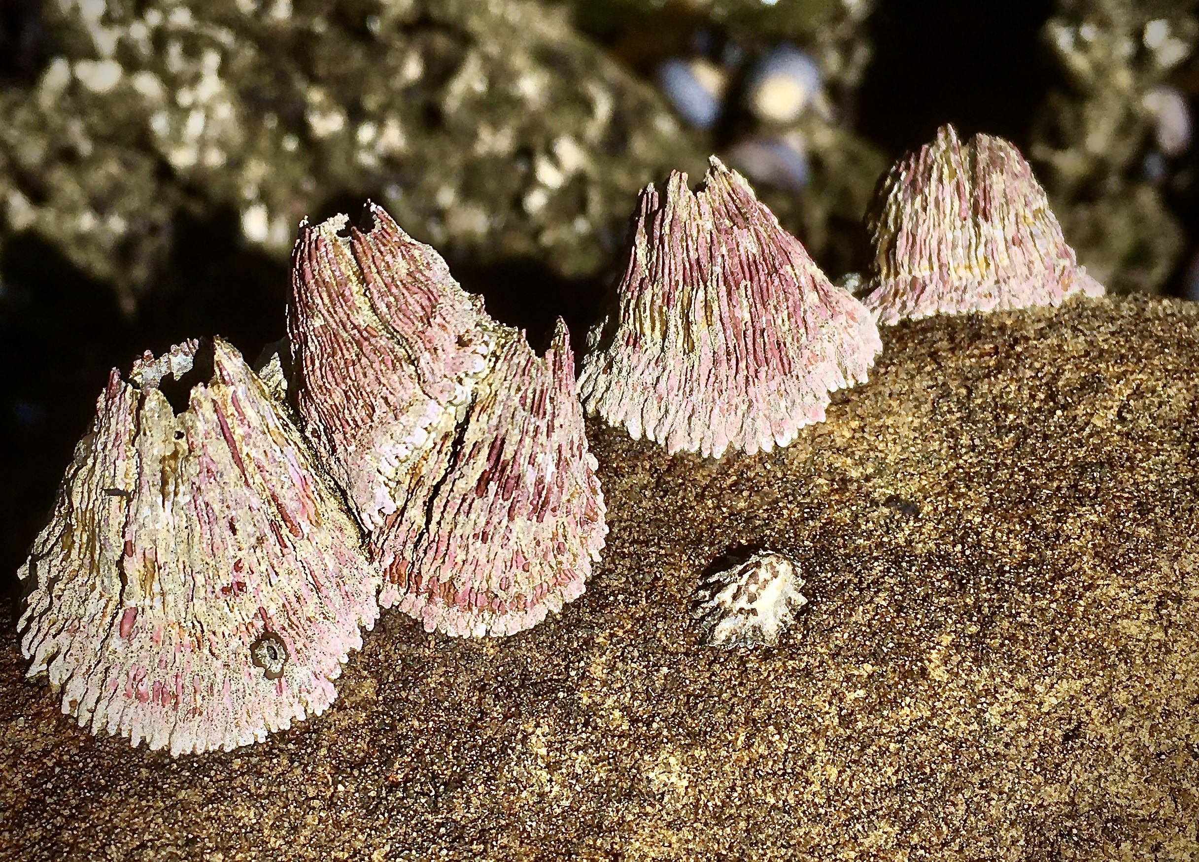 Found this morning at Estero Bluffs state park, at the pretty pocket beach at the mouth of Villa Creek. Which we had pretty much to ourselves. Way cool to walk in the footsteps of Dr. Darwin! OK, walk FAR back from Darwin's footsteps! But he did love barnacles! These little guys are maybe 1 1/4 in high x 1 in diameter. I don't know the limpet(s). There are a LOT of limpets! Barnacles spend their lives (15 years?) standing on their heads, with their feet sticking out in the water to grab their dinners. This group is firmly cemented to our ubiquitous greywacke sandstone, which weathers golden brown.